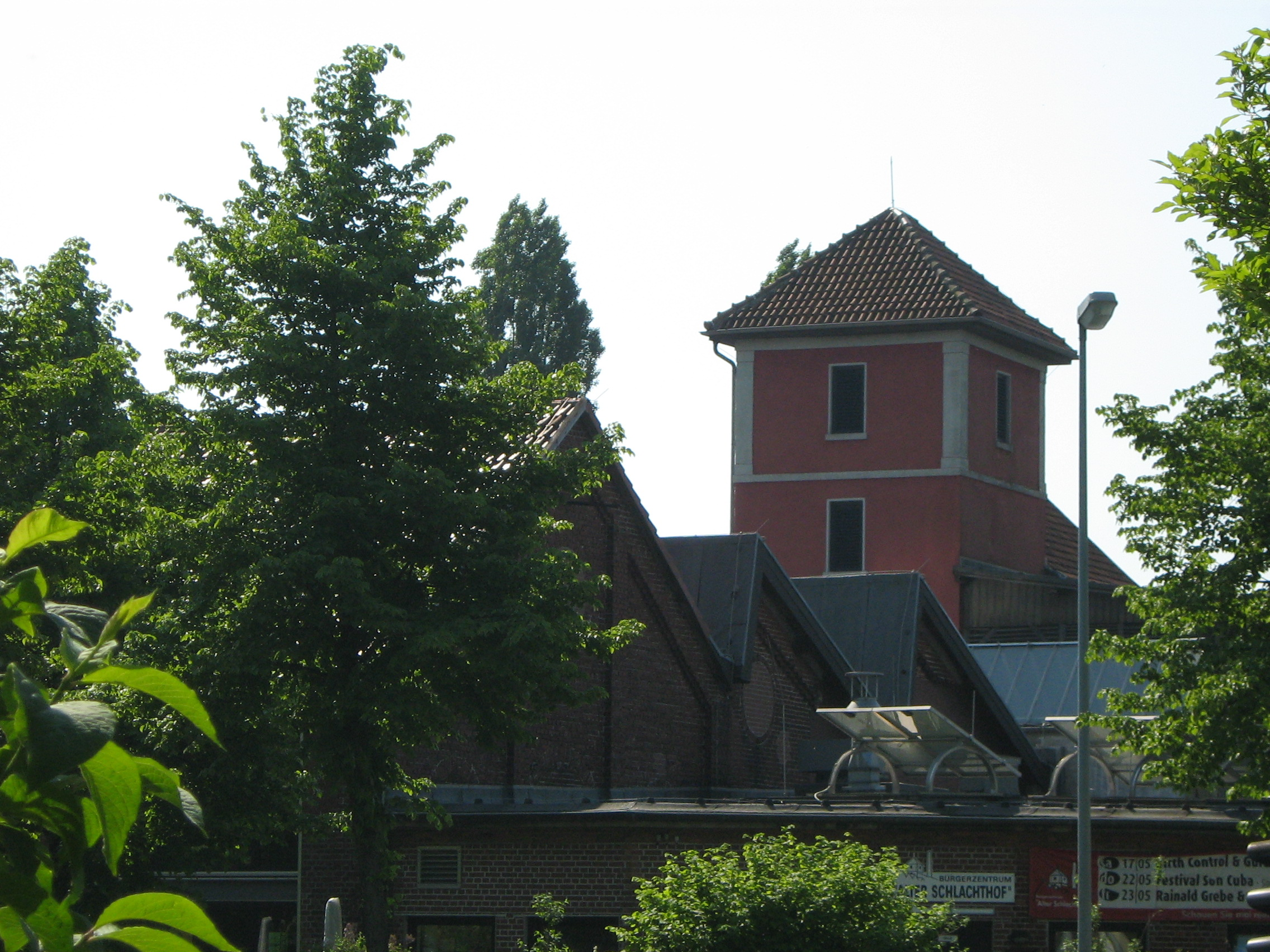 Culture event center "Old Slaughterhouse" in Soest, Germany at the Place Ulrichertor; former slaughter house, today used for cultural events